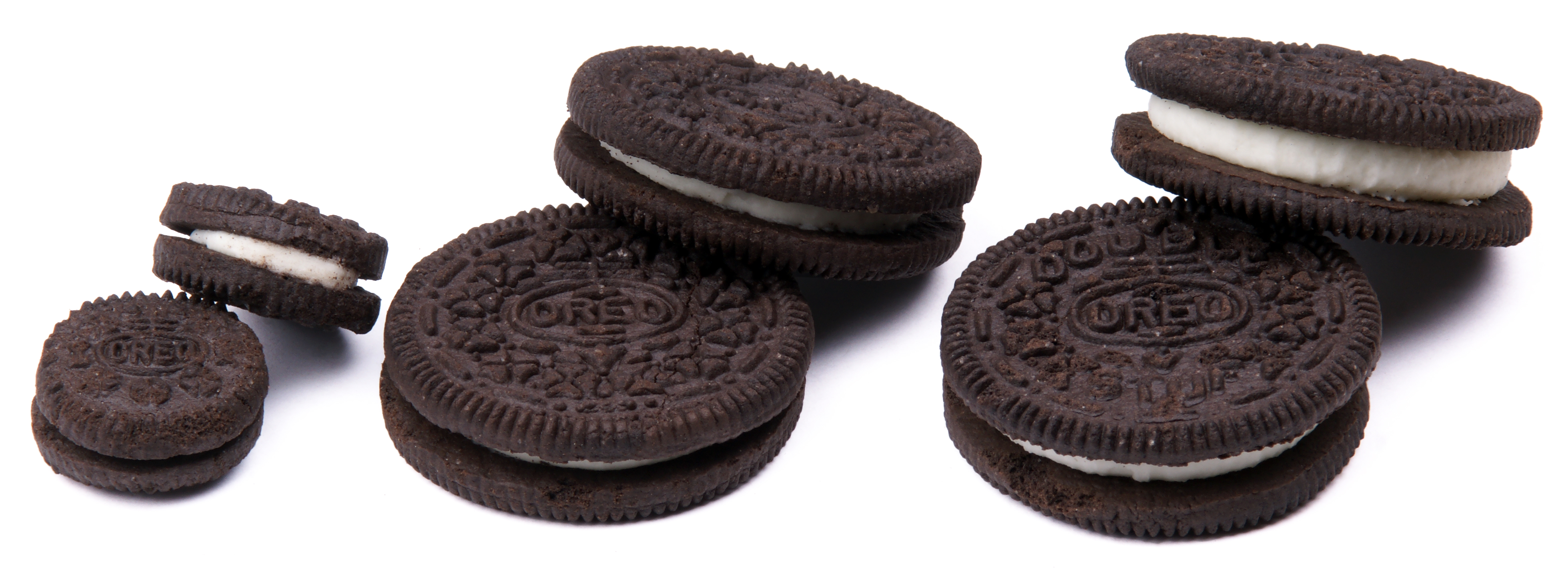 Different sizes of Oreo cookies. From left: mini, regular and double stuf.